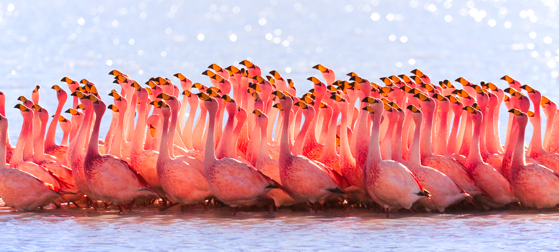 James's Flamingo Phoenicoparrus jamesi flock, at Laguna Hedionda, on the Bolivian altiplano.